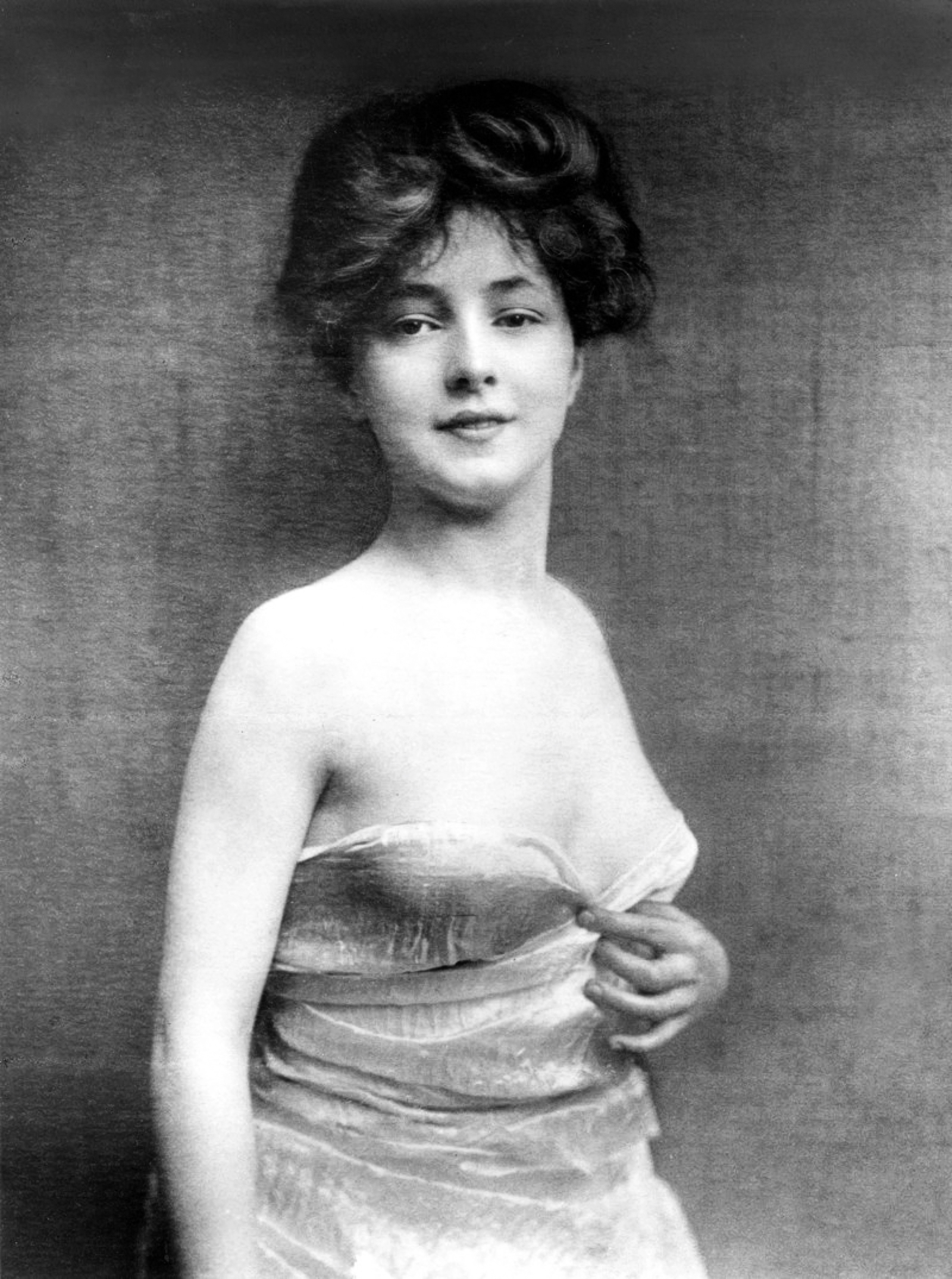 Evelyn Nesbitt circa 1903